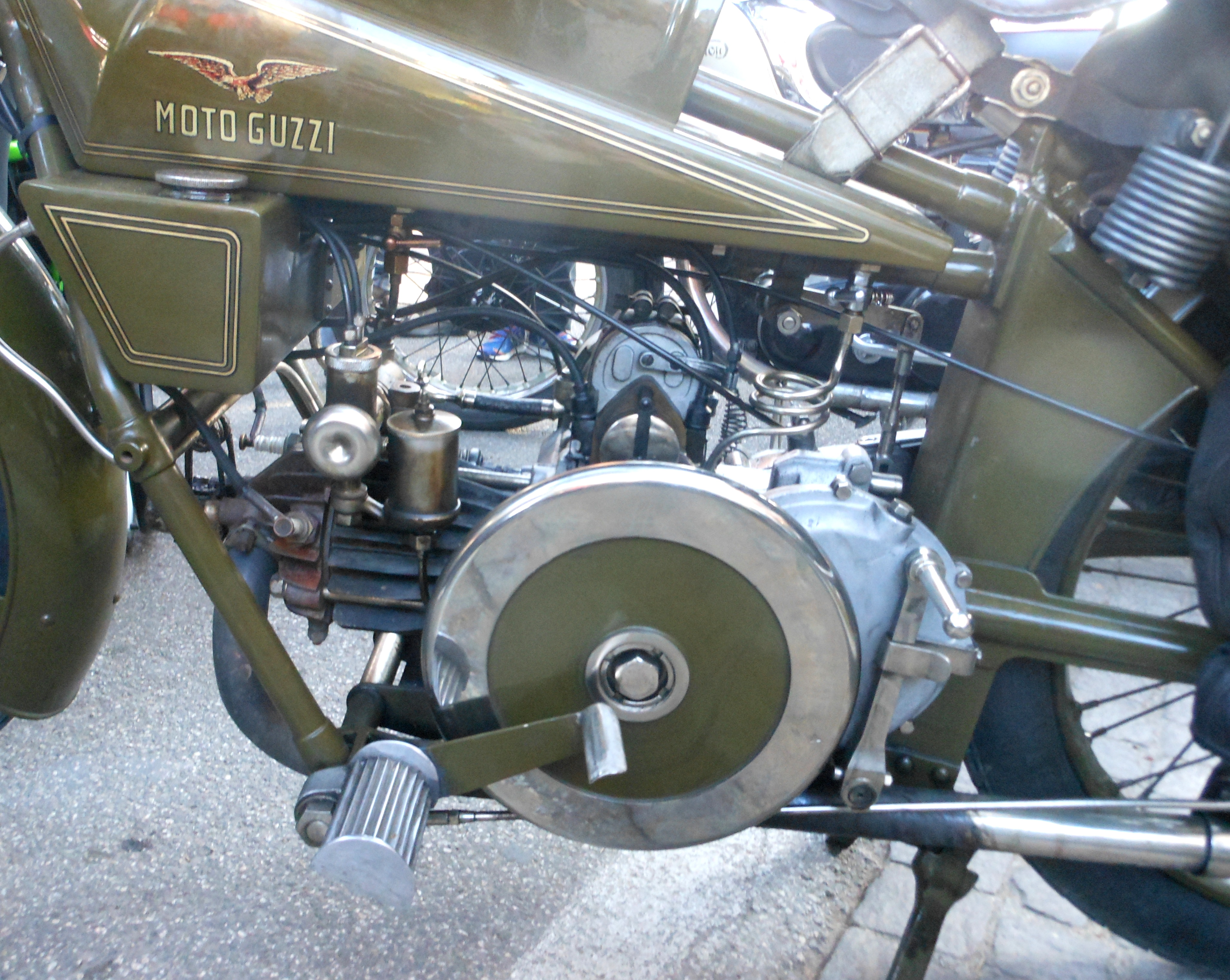 A Moto Guzzi Normale 500 in Rimini